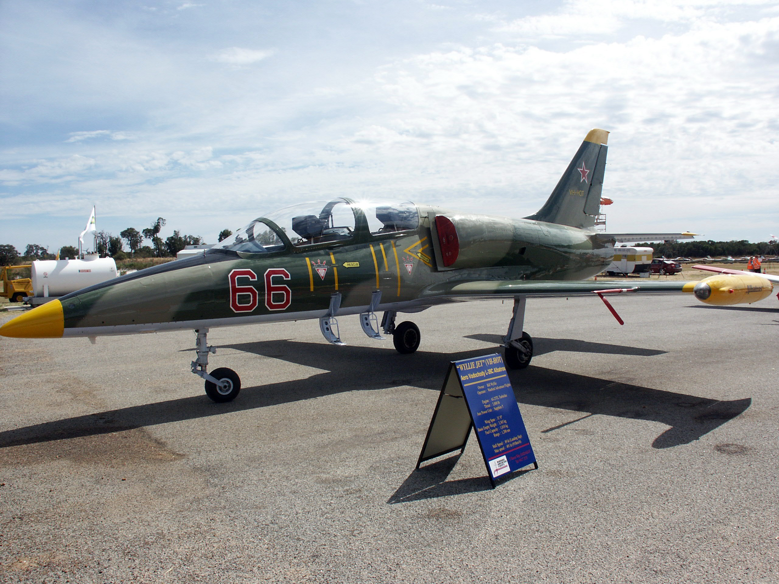 Aero L-39 Albatros in Western Australia.